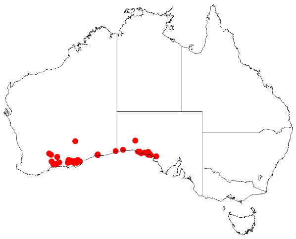 Scaevola bursariifolia occurrence data from Australasian Virtual Herbarium downloaded 12 May 2019 (no doi)